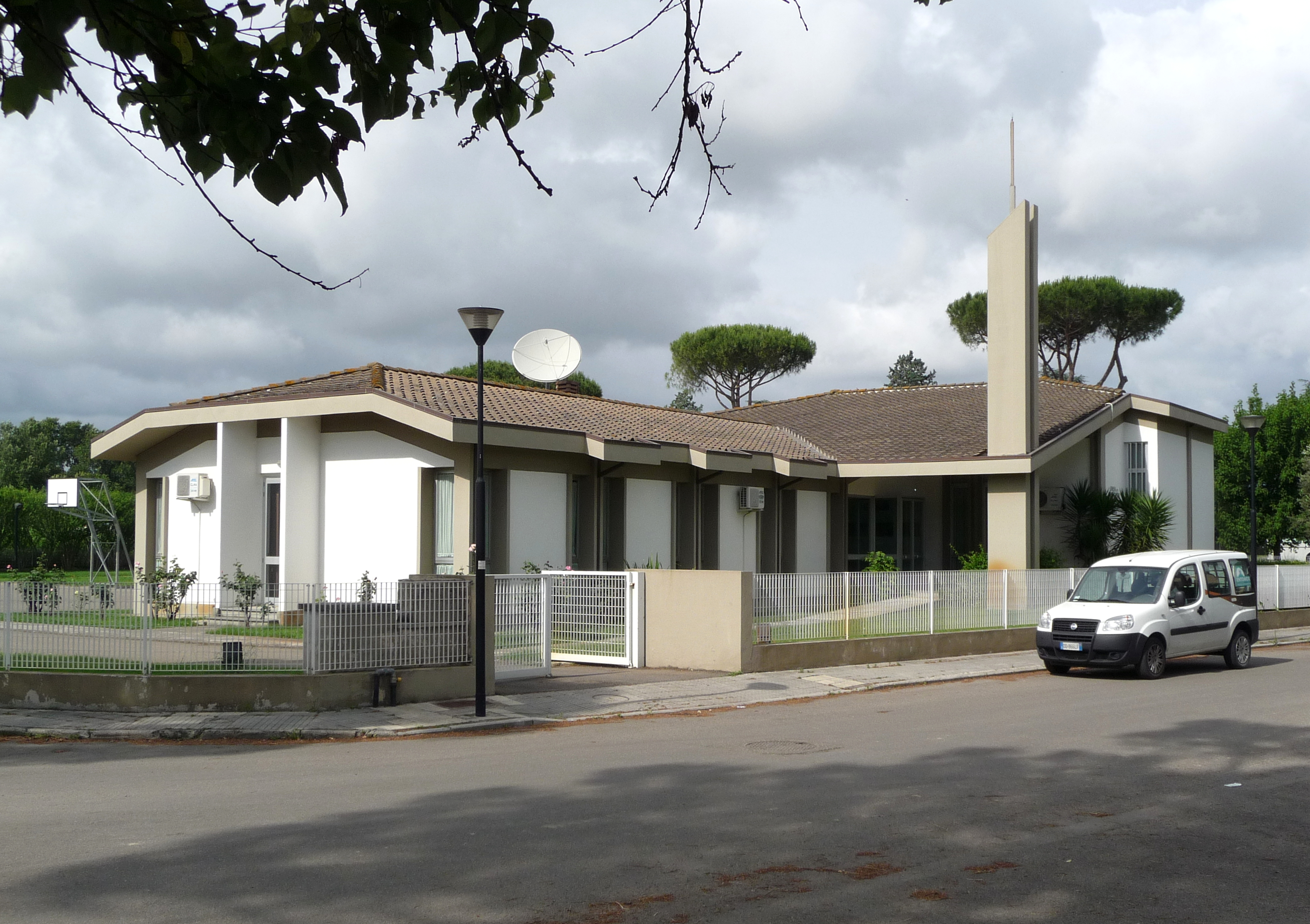 Meetinghouse of The Church of Jesus Christ of Latter-day Saints in Pisa, Italy